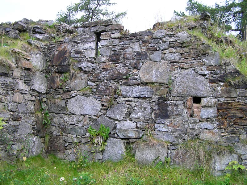 This photograph shows a view of Kindrochit Castle, Braemar